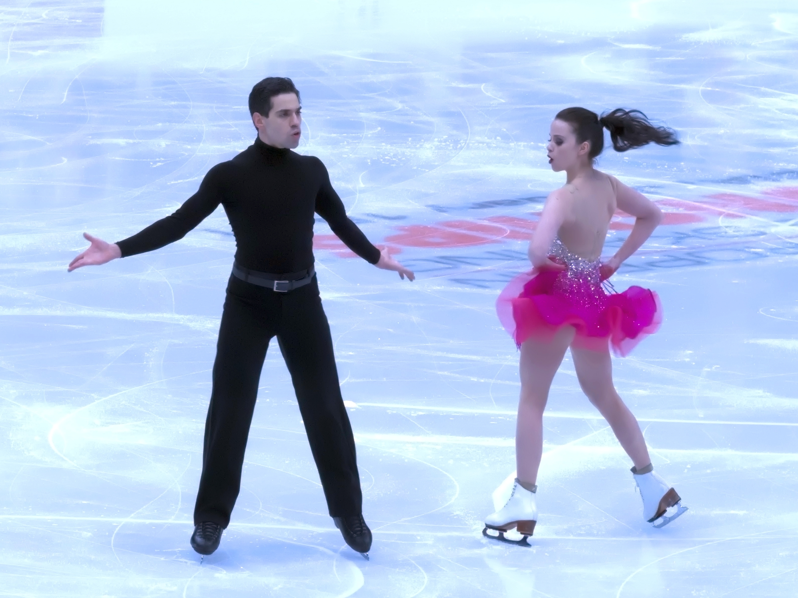 Anna Cappellini and Luca Lanotte at the 2018 European Figure Skating Championships in Moscow